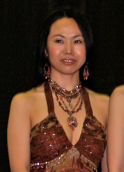 Clamp (group of artists) at the Anime Expo 2006